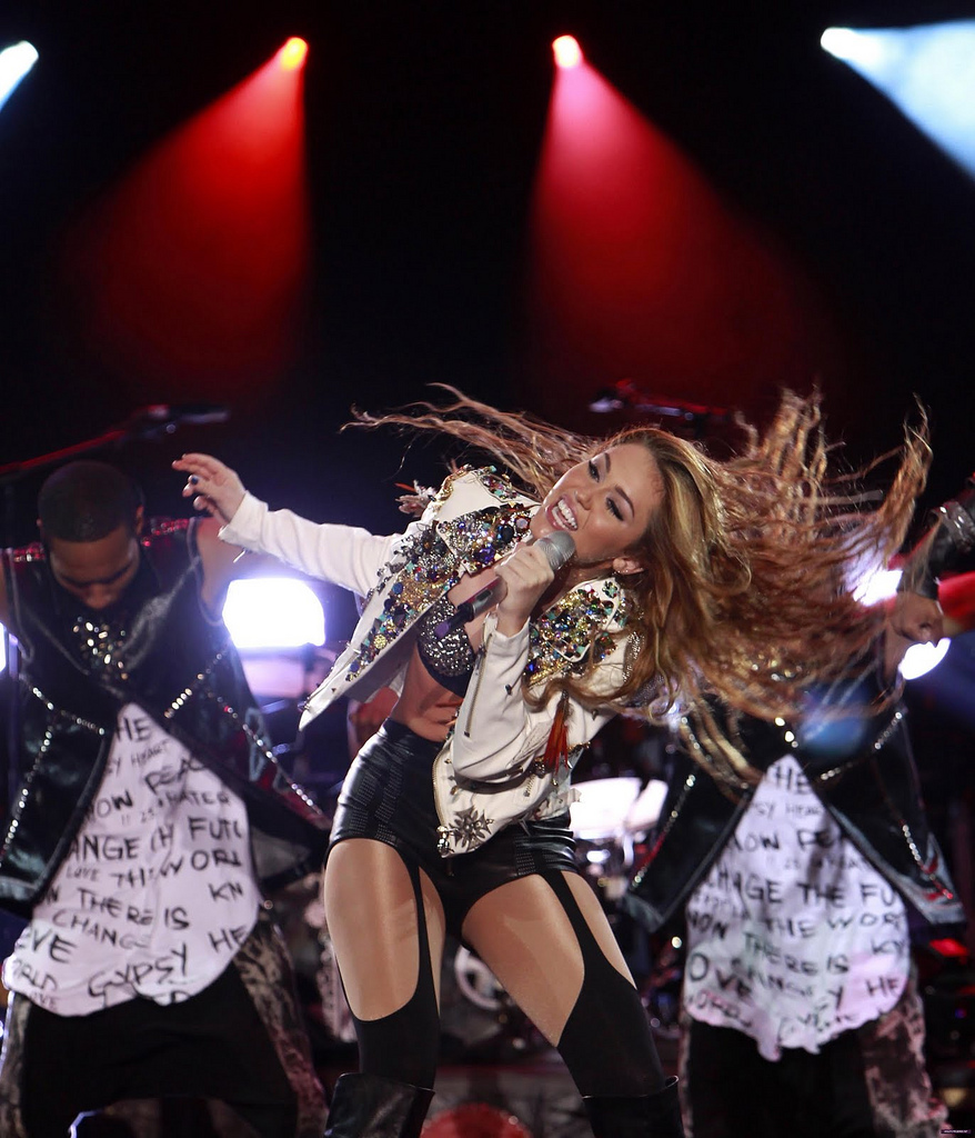 Pop singer Miley Cyrus performing in Pasay City, Philippines as part of her Gypsy Heart Tour.